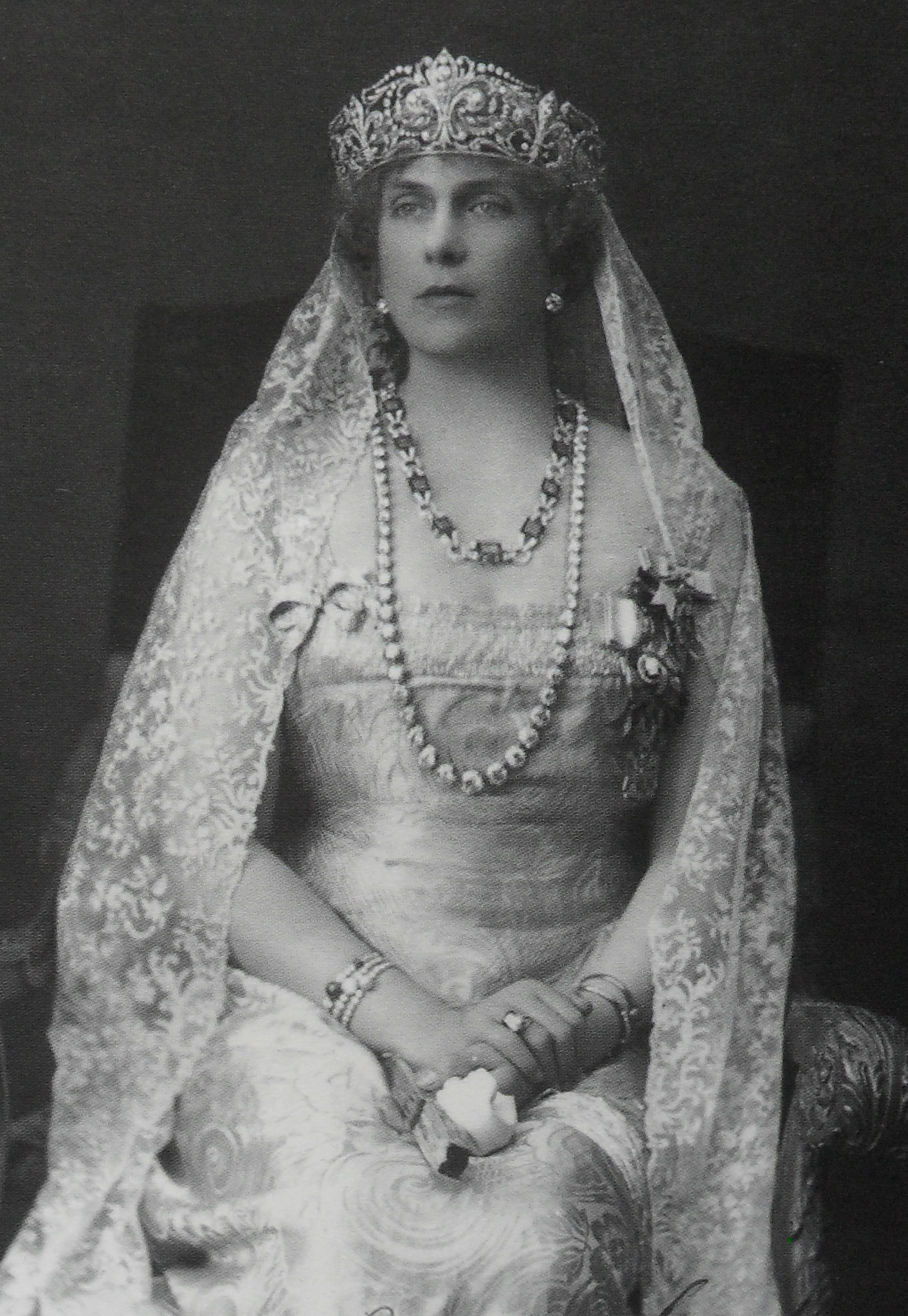 Portrait of Queen Victoria Eugenia of Spain